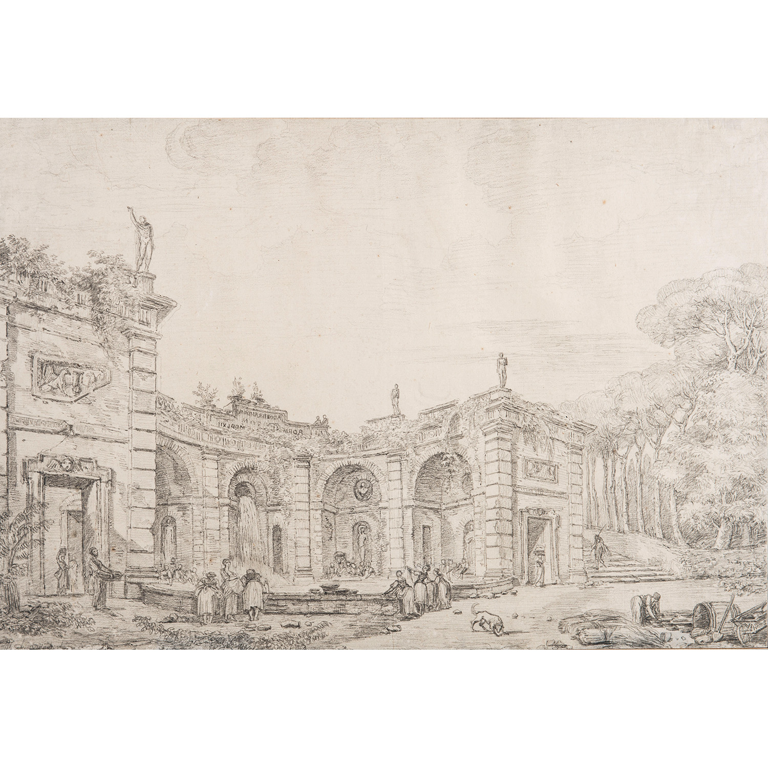 drawing of JR Ango, copy or preparation for Hubert Robert Work